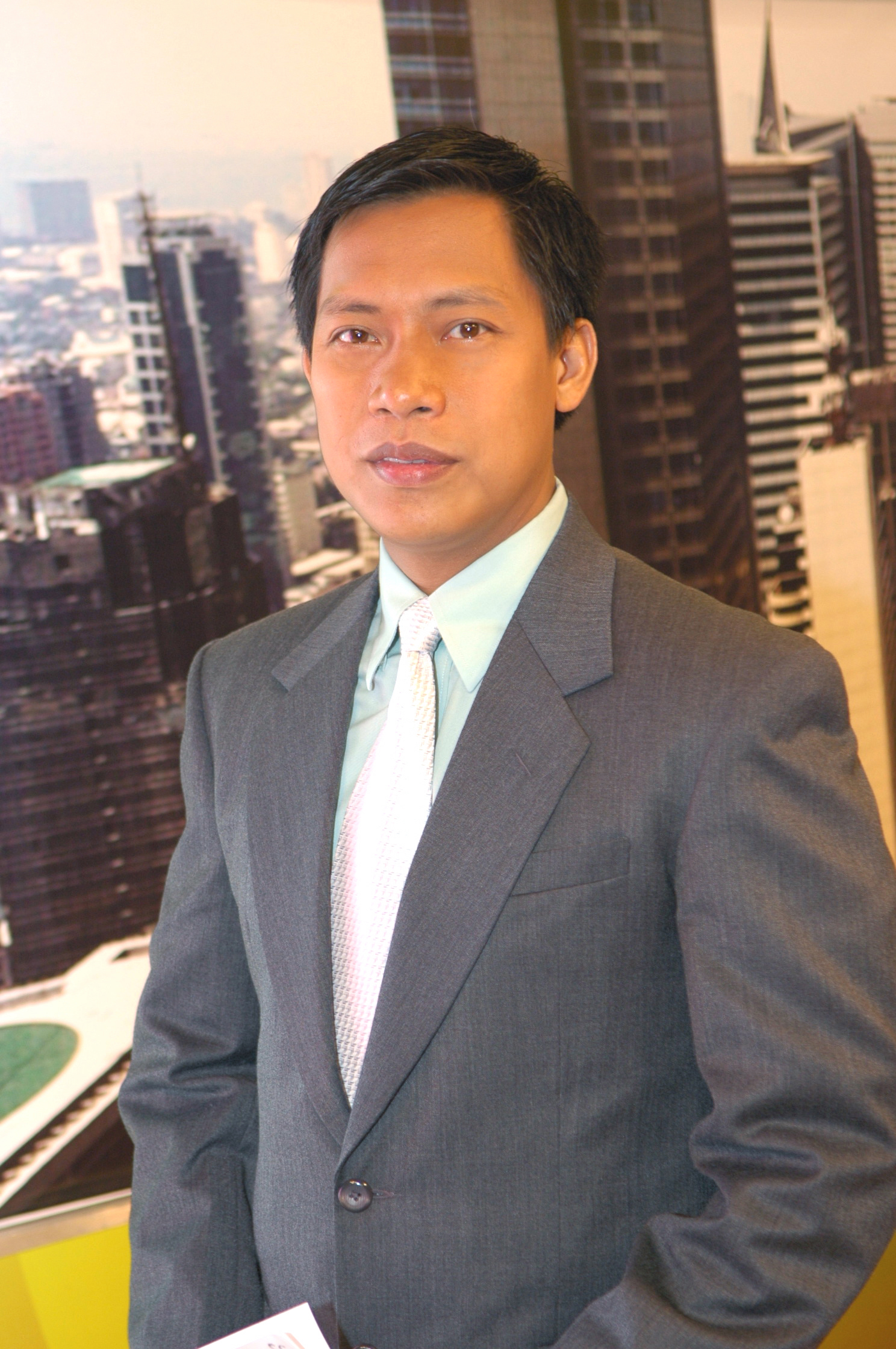 An image of Raffy Tima, a journalist working for GMA Network. Picture taken by the uploader. An image of Raffy Tima, a journalist working for GMA Network. Picture taken by the uploader.